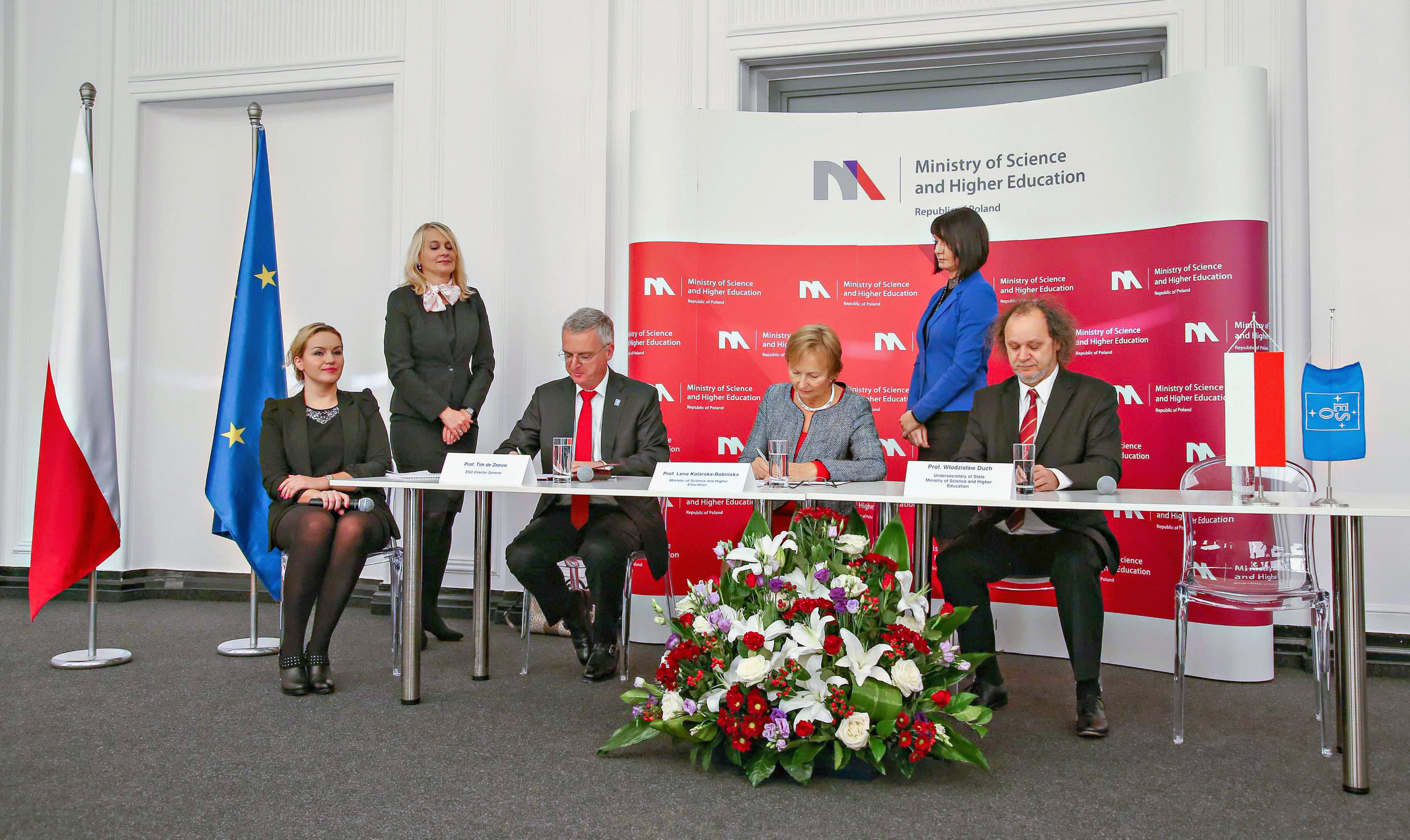 The ESO accession agreement with Poland was signed on 28 October 2014 in Warsaw, by Professor Lena Kolarska-Bobińska, the Polish Minister of Science and Higher Education and ESO’s Director General Tim de Zeeuw, in the presence of other senior officials from Poland and ESO.